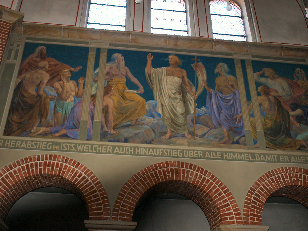 Nordhorn, St Augustinus